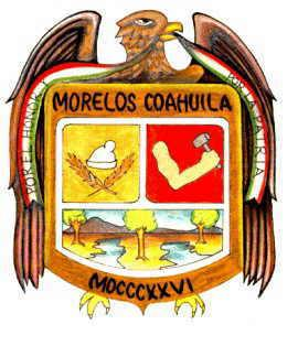 Coat of Arms from the Municipality of Morelos in the Mexican State of Coahuila de Zaragoza.